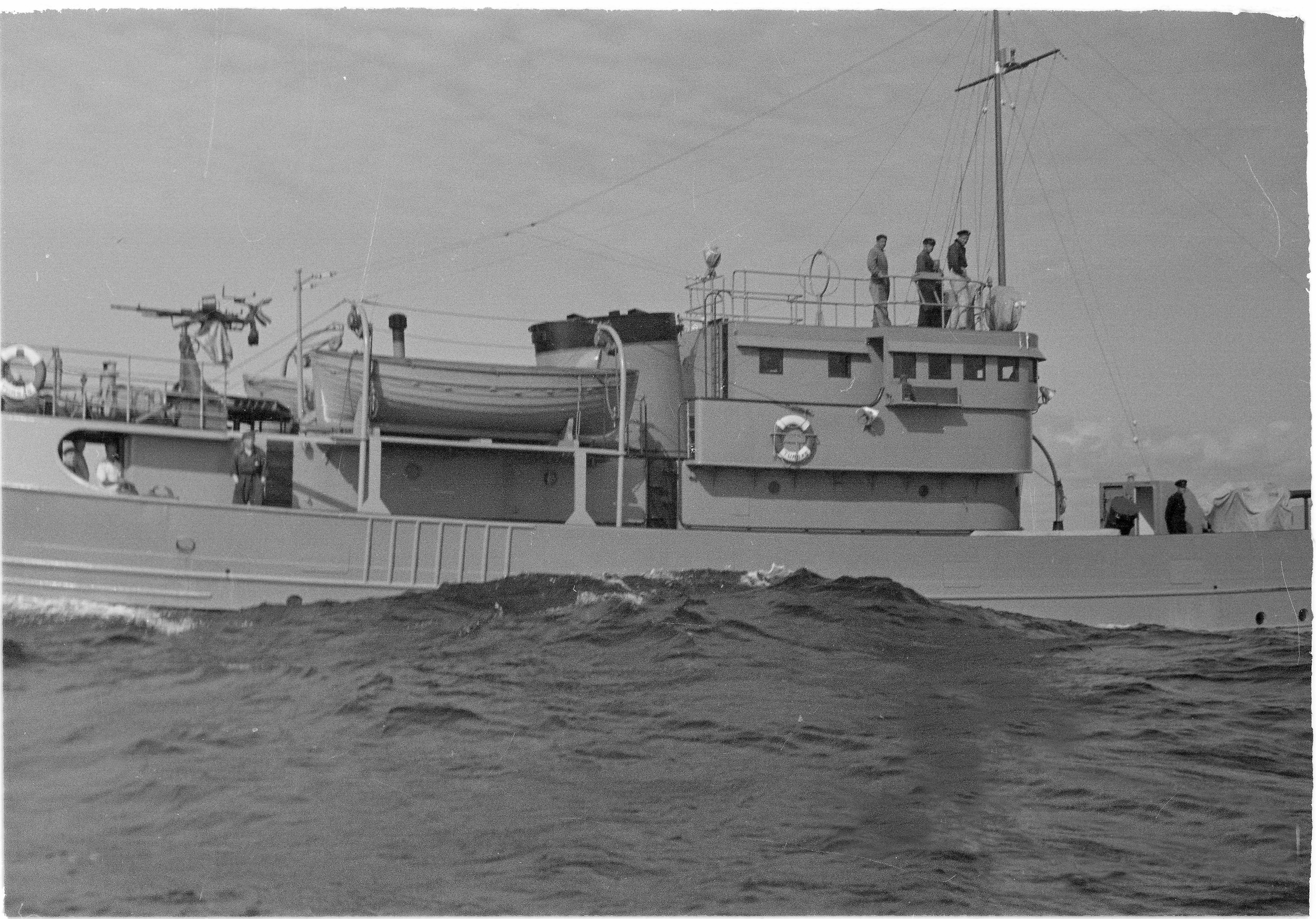 "The marine pilots' duties at Kobba Klintar: The escort ship Tursas". Picture by Fenrik L. Zilliacus.